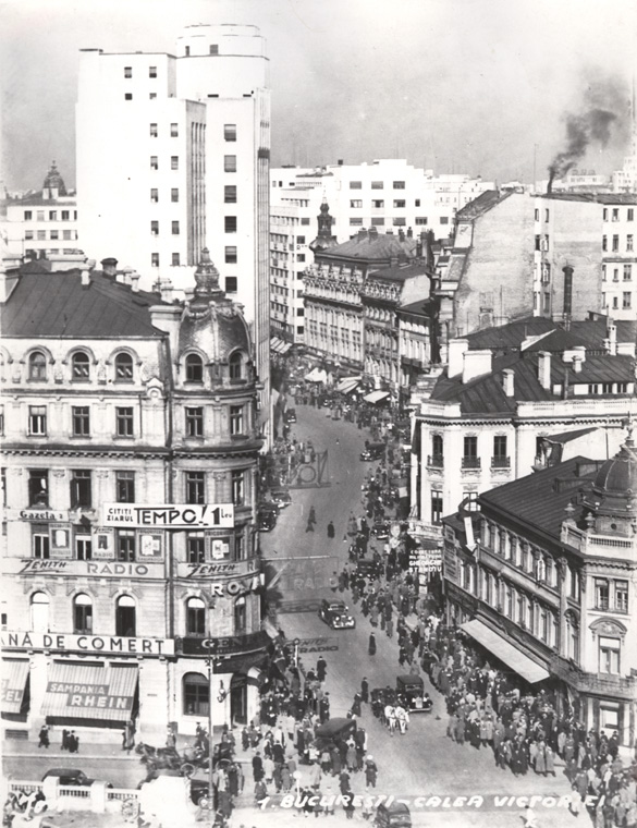 Victory Avenue between Capşa House and the Telephone Palace, 1935